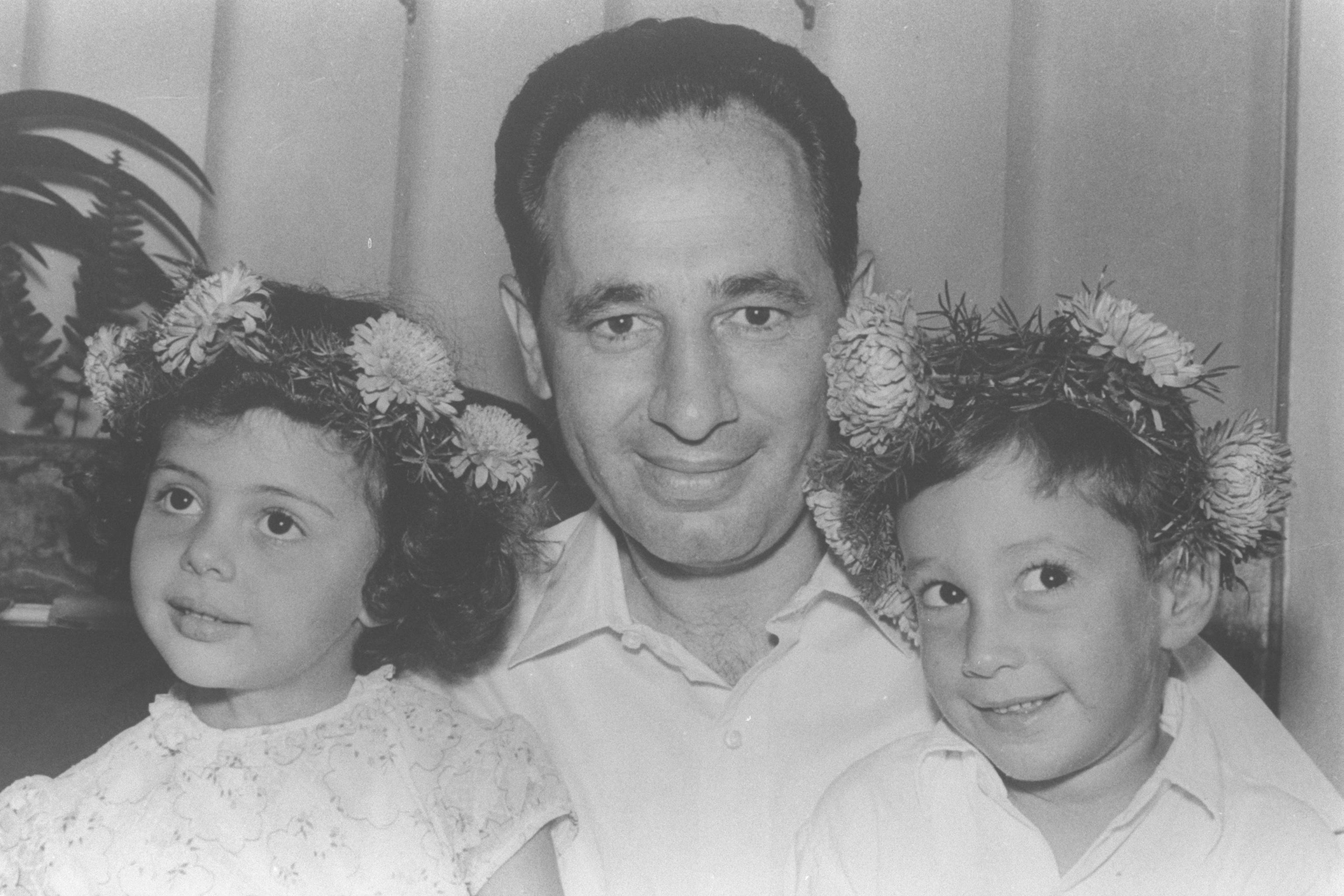 Shimon Peres during the birthday celebration of his son Hami (right) in Tel Aviv. שמעון פרס במסיבת יום הולדת של בנו חמי, בתל אביב. 01/01/1962